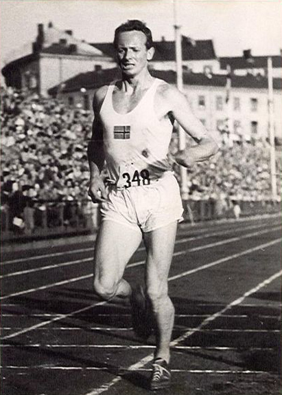 100m European Championships Oslo 1946: "Holmvang gav oss gul"(Holmvang gave us gold)